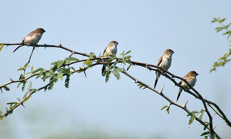 Indian Silverbill (Lonchura malabarica) near Hodal in Faridabad District of Haryana, India.